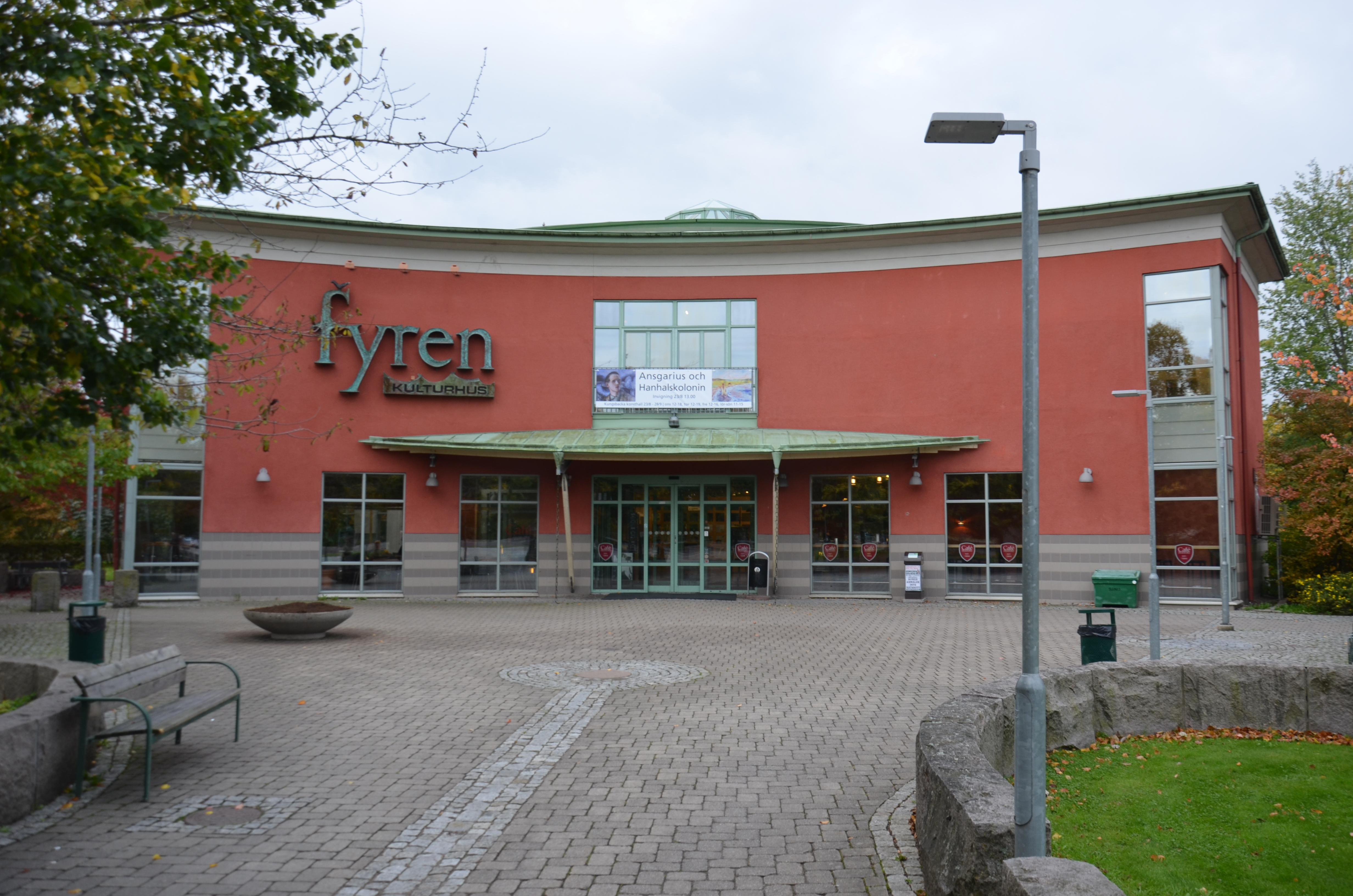 Kulturhuset Fyren i Kungsbacka